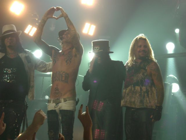 Mötley Crüe after a show in Vancouver, B.C. Canada